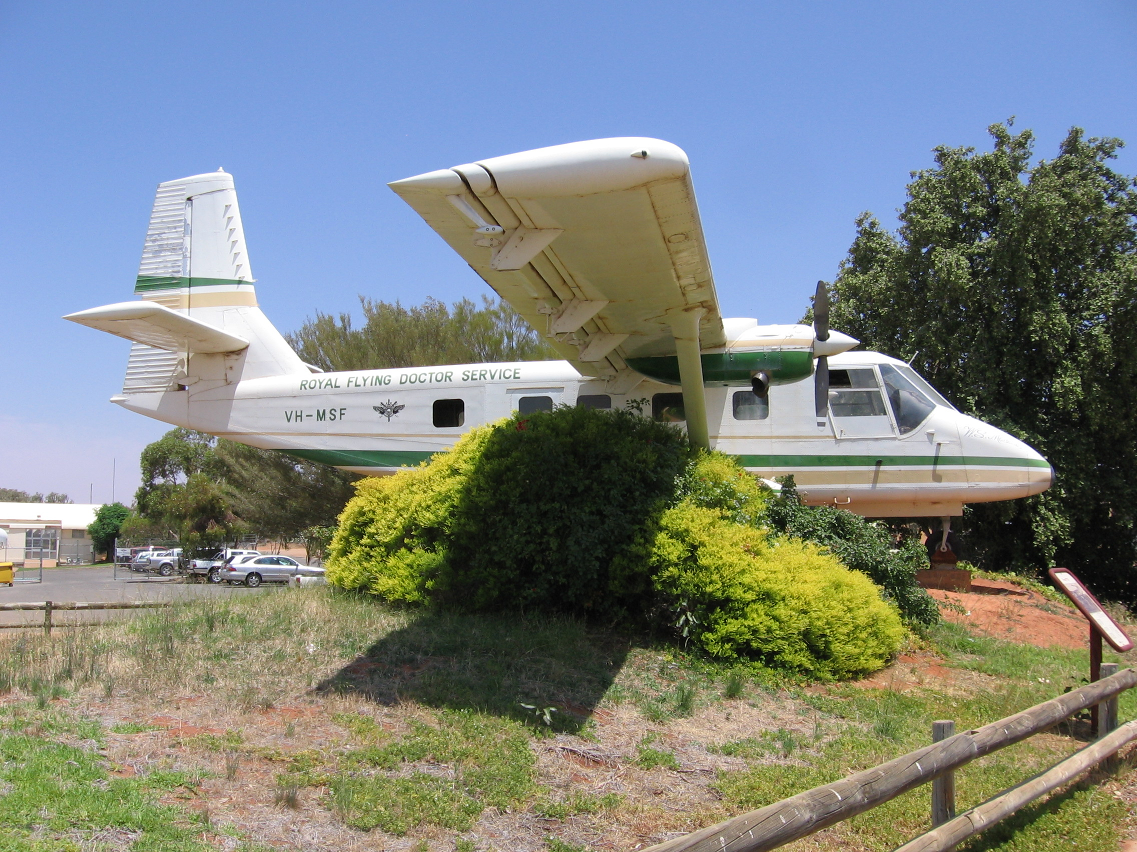 Old Flying Doctor's plane, Broken Hill airport